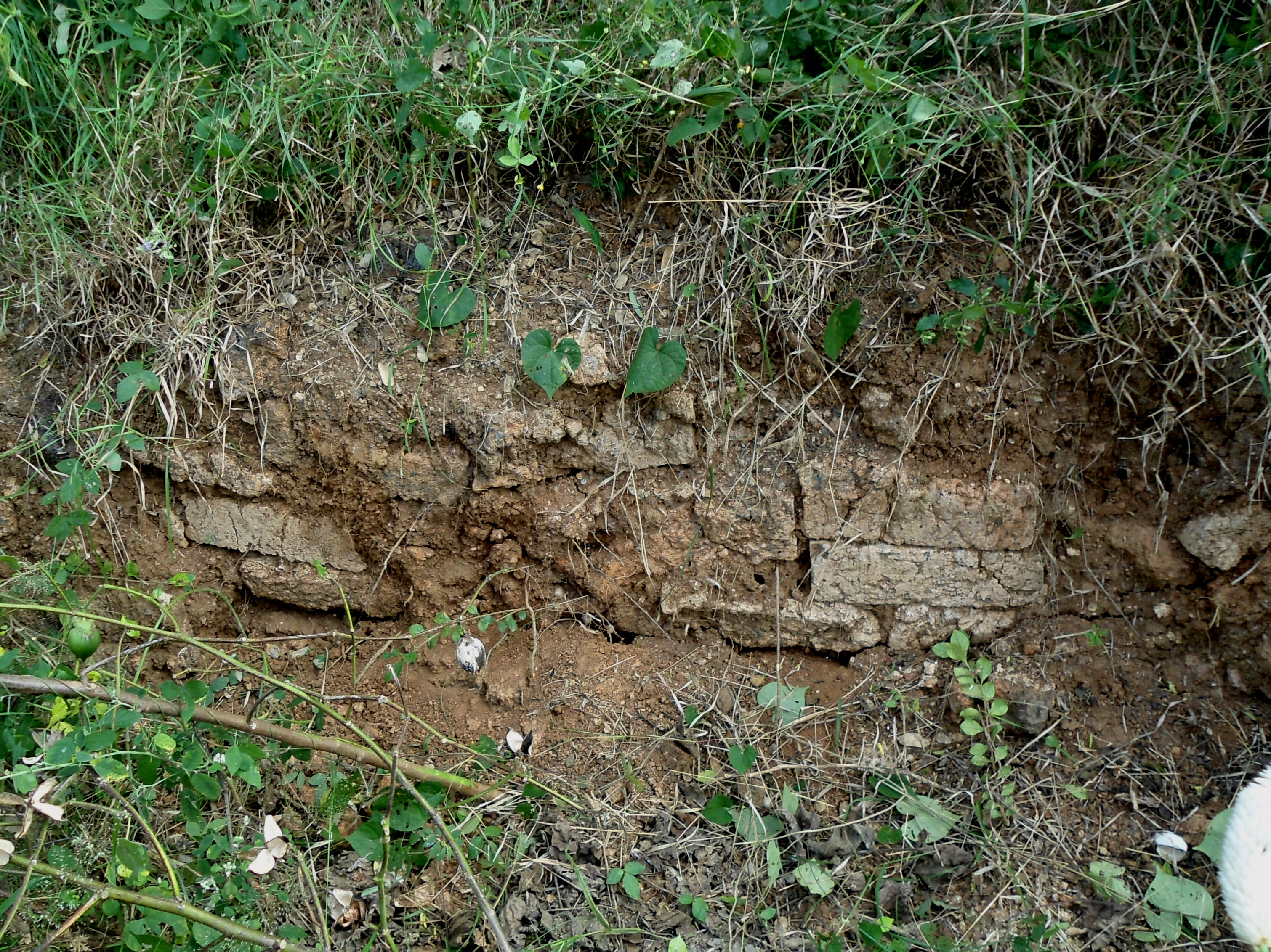 Garikapadu Buddhist Stupa, Krosuru mandal, Guntur district